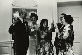 This file has been extracted from another file: Ford A9163 NLGRF photo contact sheet (1976-04-08)(Gerald Ford Library).jpg (Frame 26)